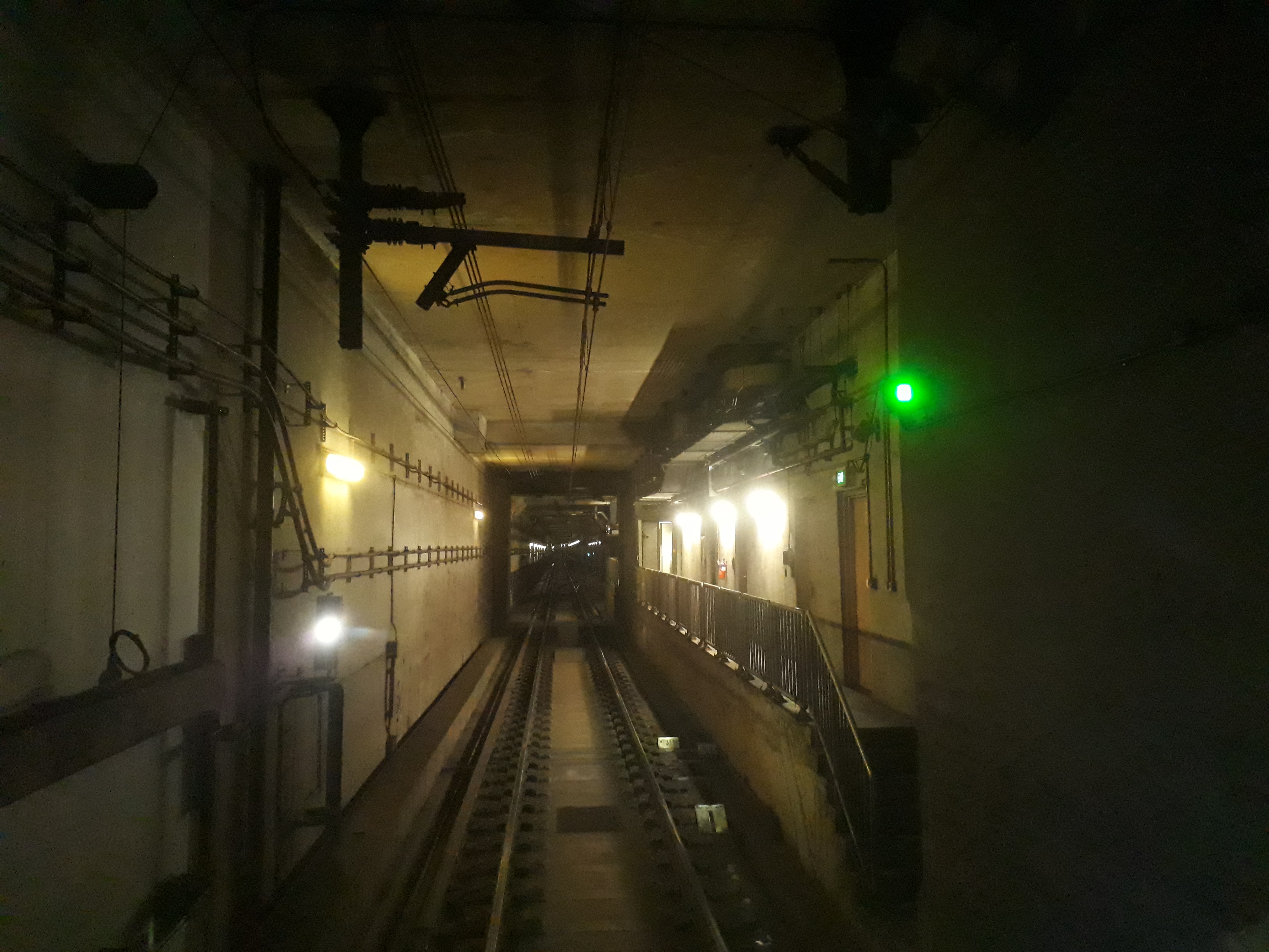 Tracks in NEL tunnels